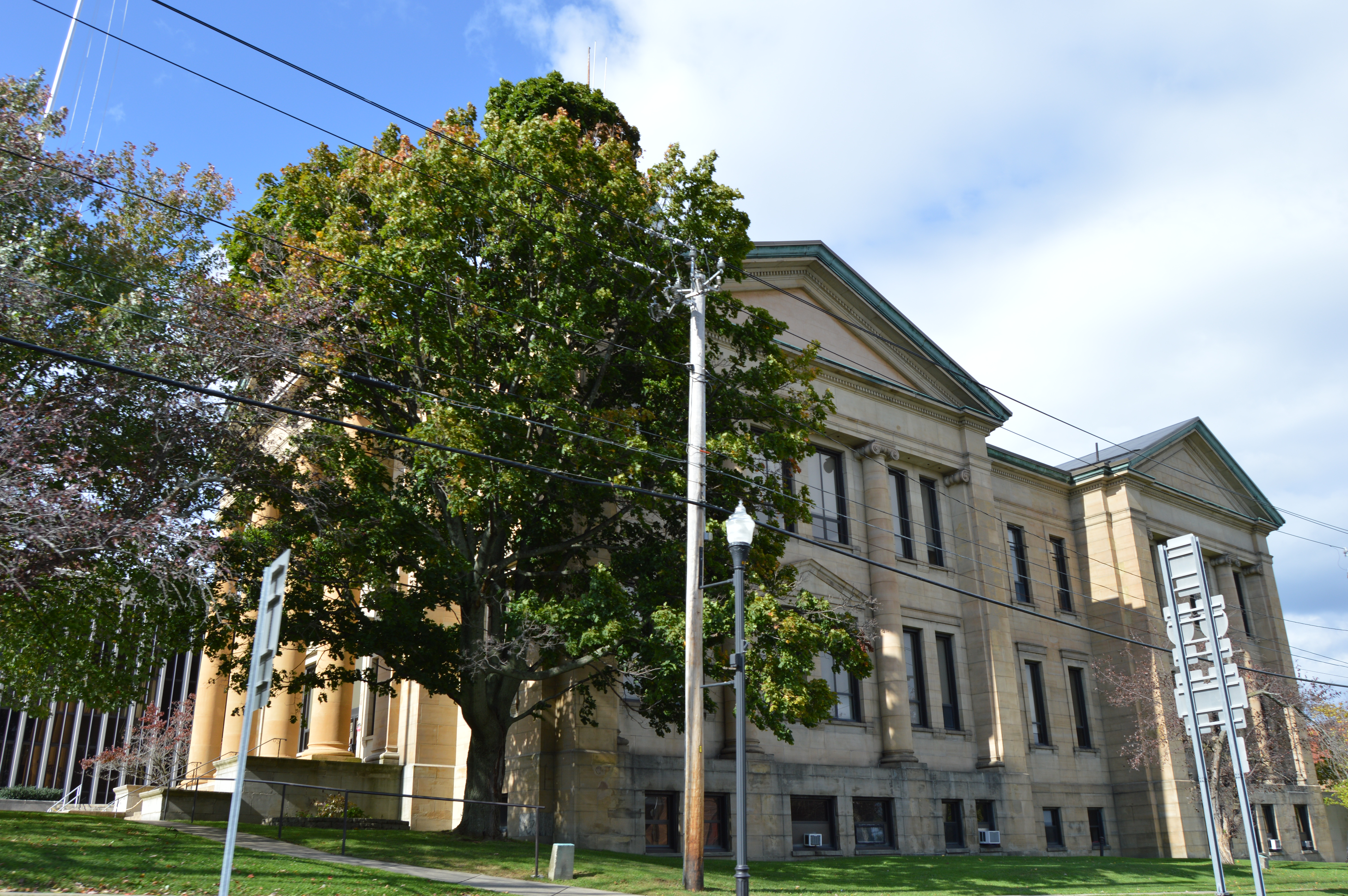 View from the south of the Chautauqua County Courthouse, located on the northern corner of the junction of Erie and Chautauqua Streets (State Routes 394 and 430, respectively) in Mayville, New York, United States. It was built in 1907.